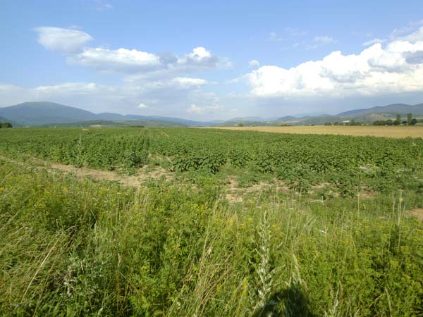 Знеполе